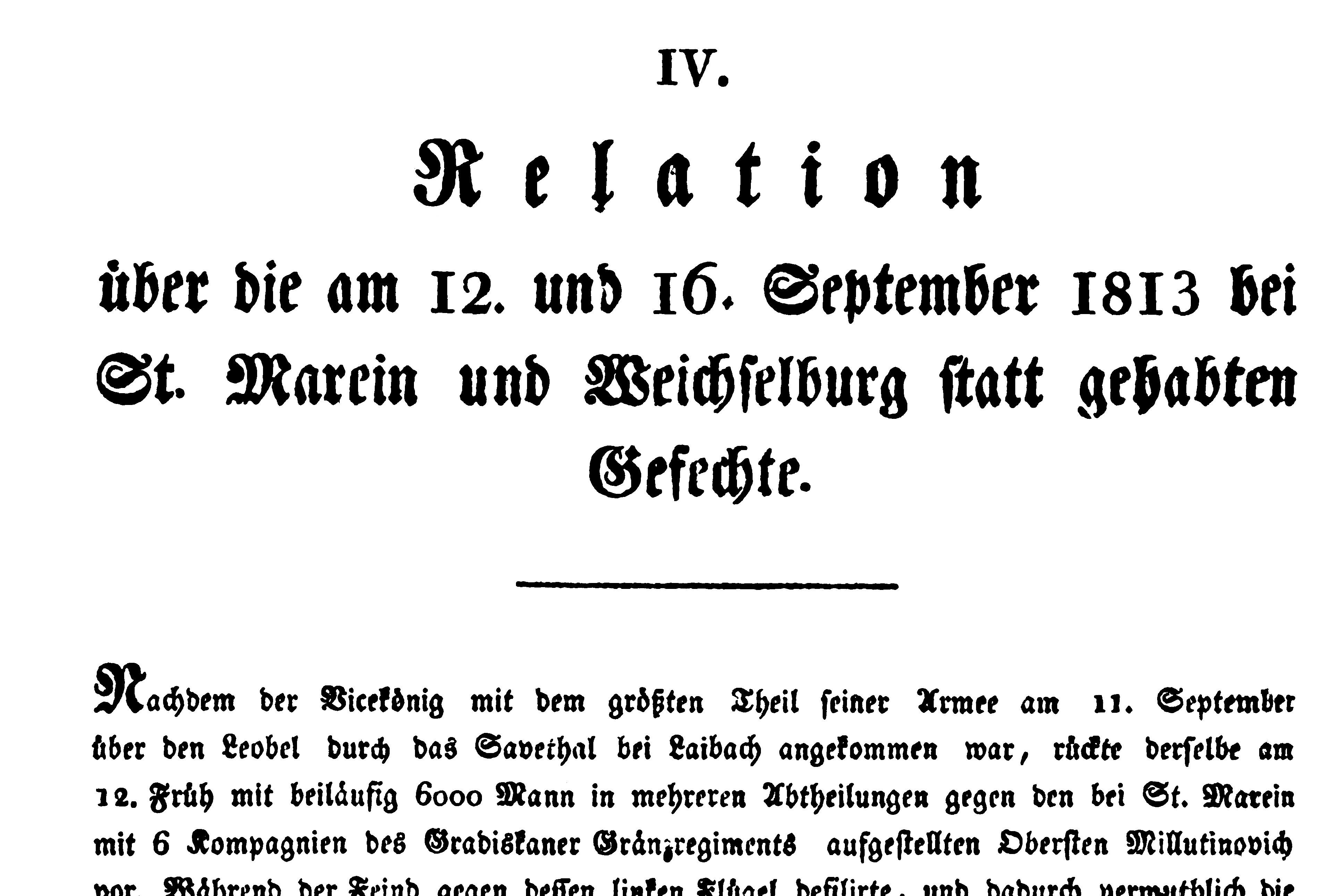 Top of the first page of chapter IV. "Relation" about 12th and 16th September 1813 combats at St. Marein (Šmarje) and Weichselburg (Višnja Gora)